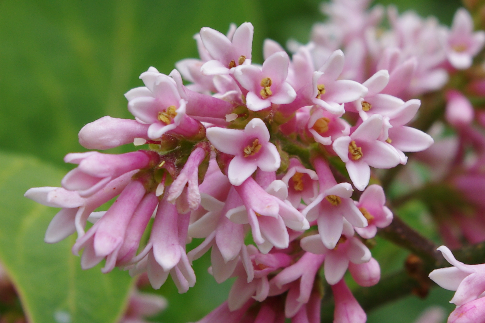 Syringa tomentella at the ÖBG Bayreuth